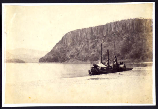 Photograph of the 'Ma Robert', Dr Livingstone's ship on the second Zambesi expedition of 1858-63, on the Zambesi at Lupata. From National Library of Scotland's 'The Kirk Papers.' A collection of photographs and papers belonging to East Africa pioneer Sir John Kirk. It was acquired for the National Library of Scotland in 1998/1999 with the help of a grant of £55,000 from the Heritage Lottery Fund.